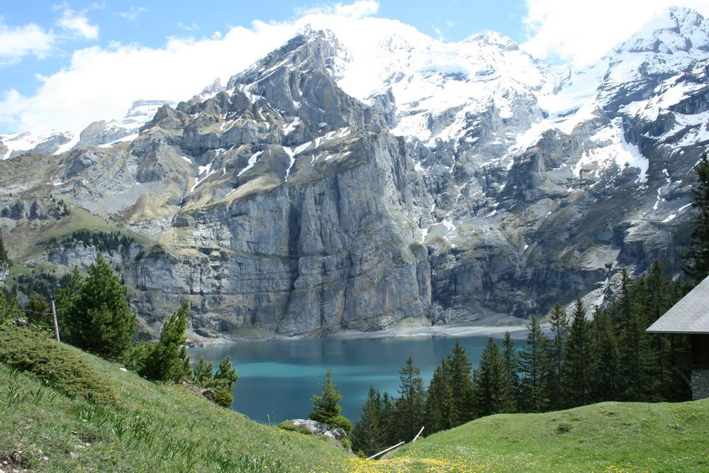 A summertime view of Blüemlisalp and Oeschinen Lake, Bernese Alps.